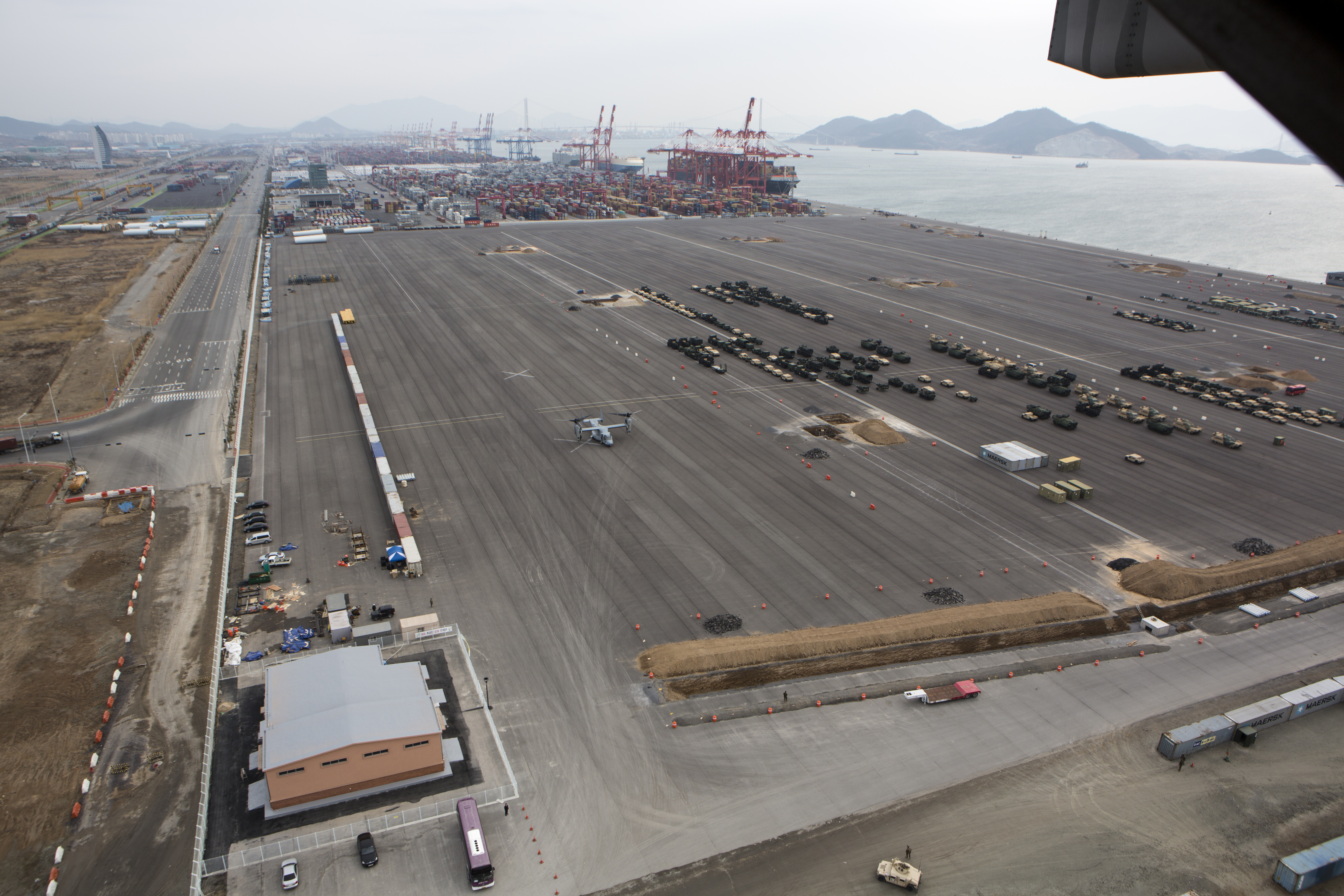 Aerial view of Guang Yang Port from MV-22 Osprey, with Marine Medium Tiltrotor Squadron 262 supporting Marine Expeditionary Force Exercise (MEFEX) 2014 at Guang Yang, South Korea, March 20, 2014. MEFEX will enhance the interoperability between the U.S. Marine air ground task force and the Republic of Korea Marine task force while honing amphibious capabilities of each nations Navy and Marine Corps.